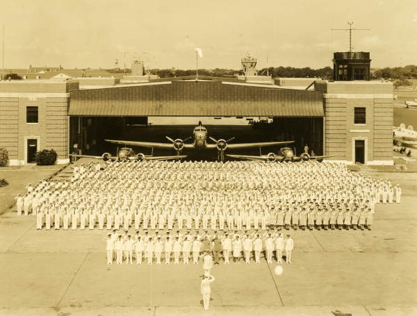 Local call number: JJS1929 Title: Monthly inspection of the Naval Photography School at NAS Pensacola Physical descrip: 1 photonegative - b&w - 8 × 10 in. Series Title: Joseph Janney Steinmetz Collection